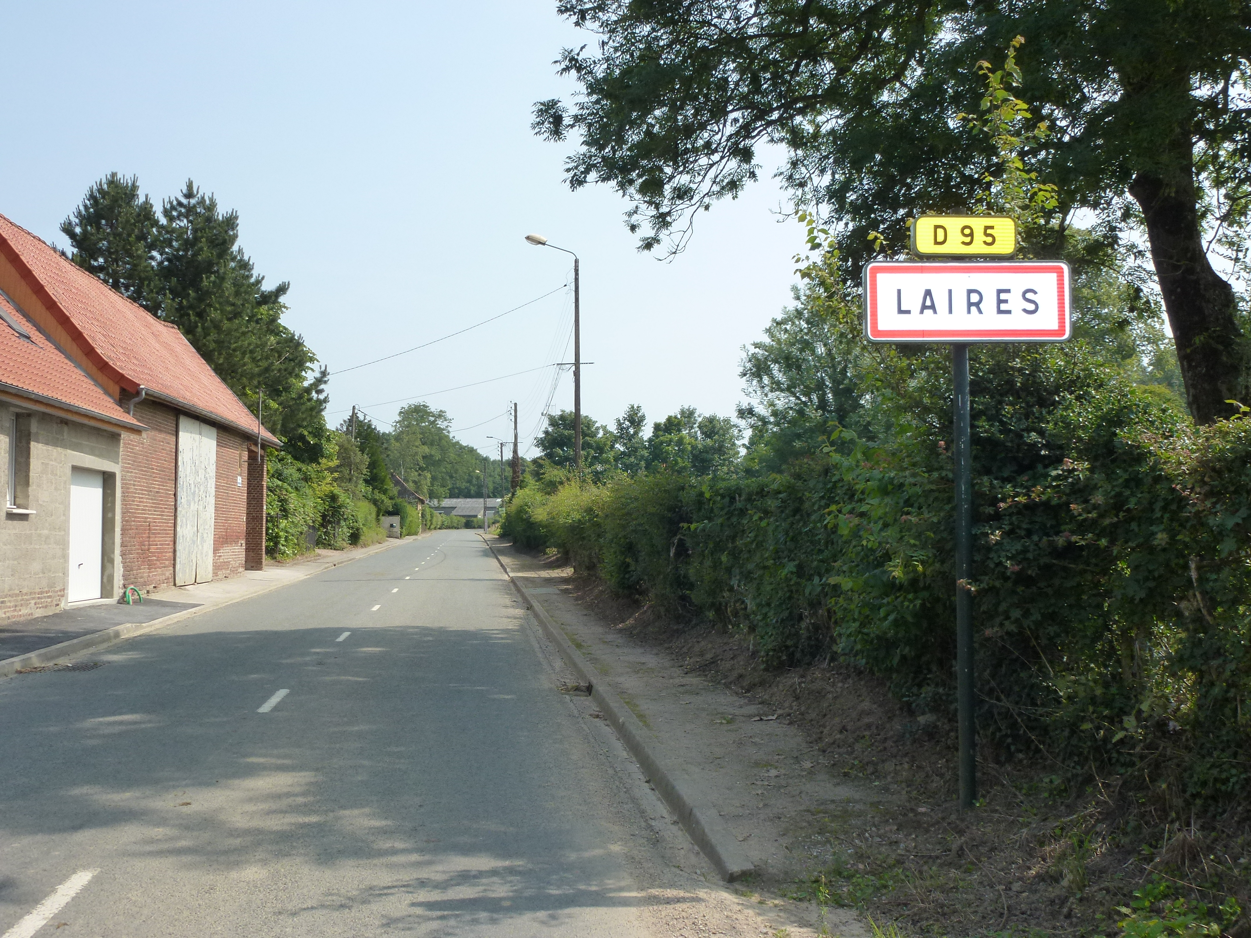 Laires (Pas-de-Calais) city limit sign